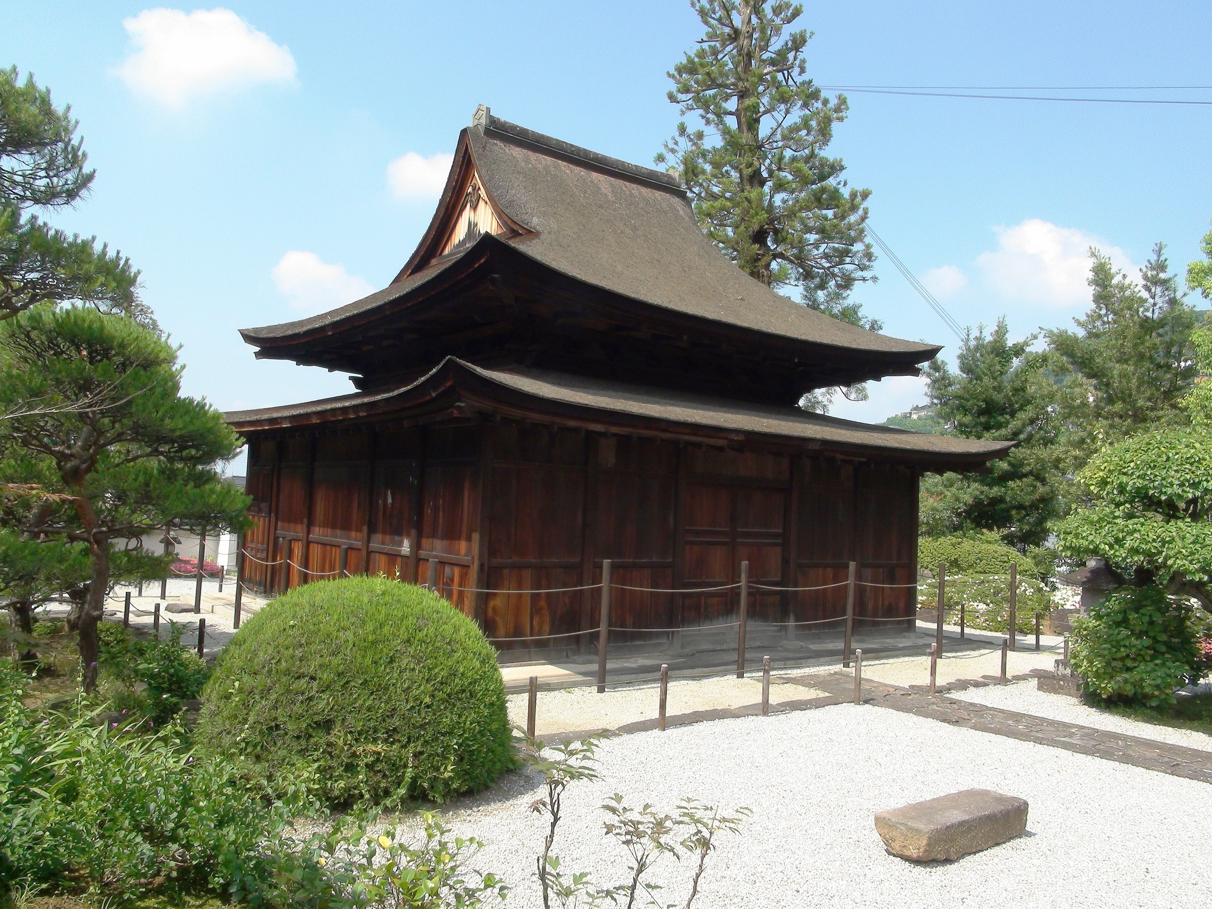 Tokoji-temple Kofu-city Yamanashi Japan